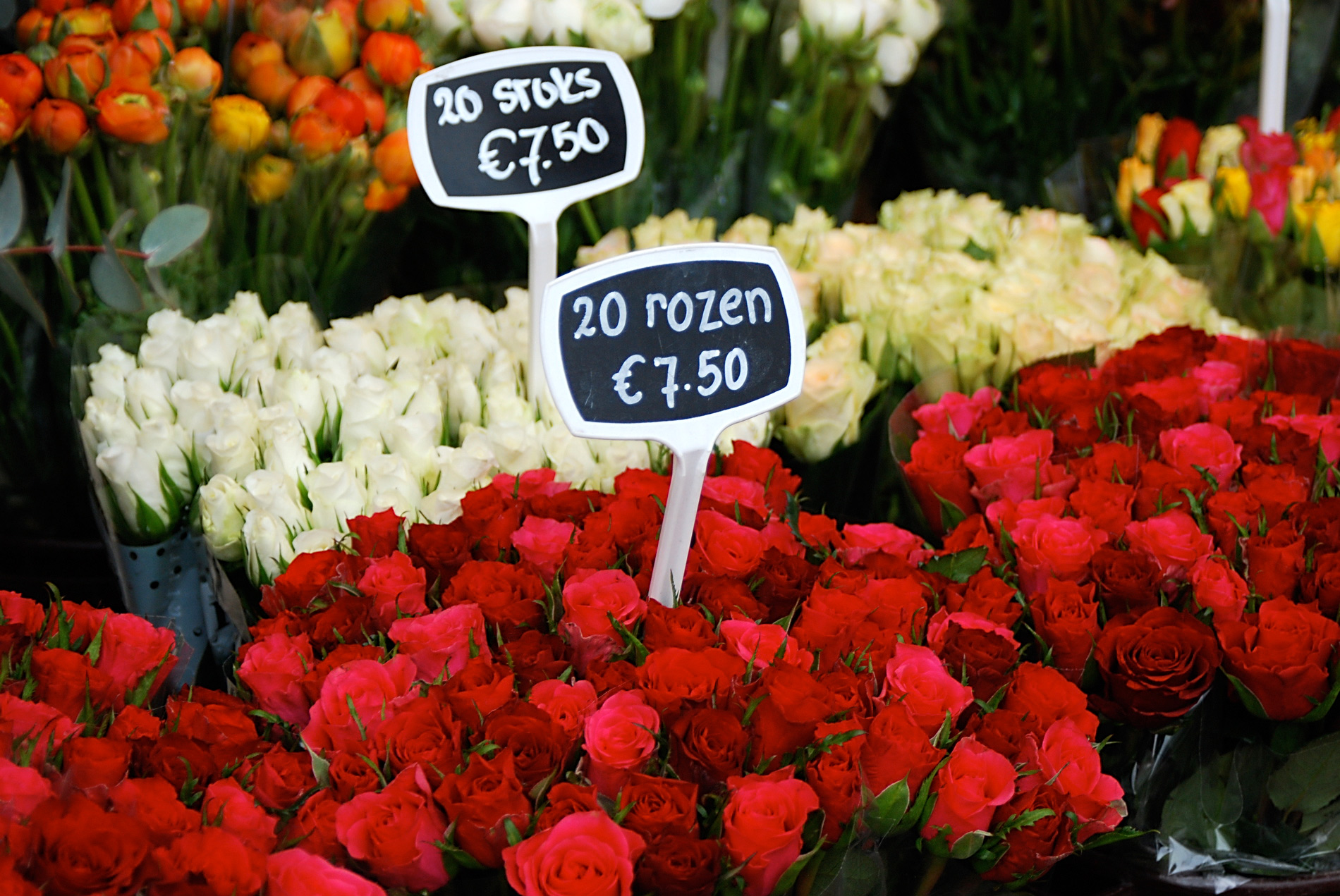 Bloemenmarkt Roses.